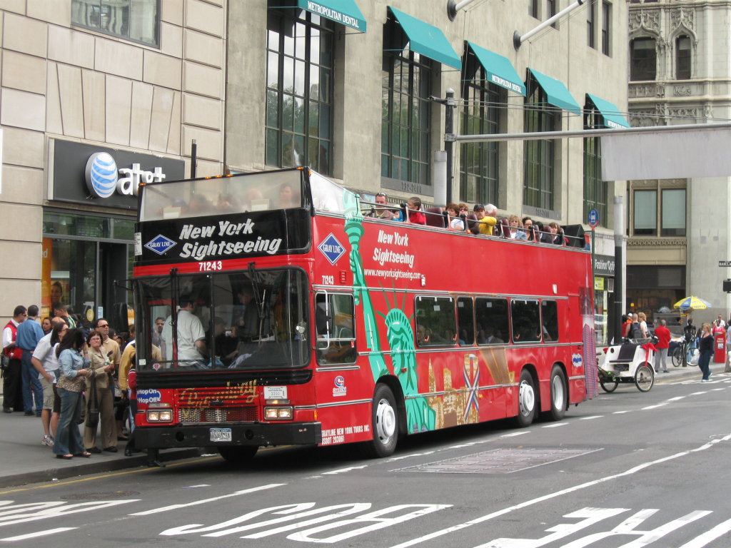 Gray Line New York Leyland Olympian #71243, a 1986 model, in sightseeing service in New York City.